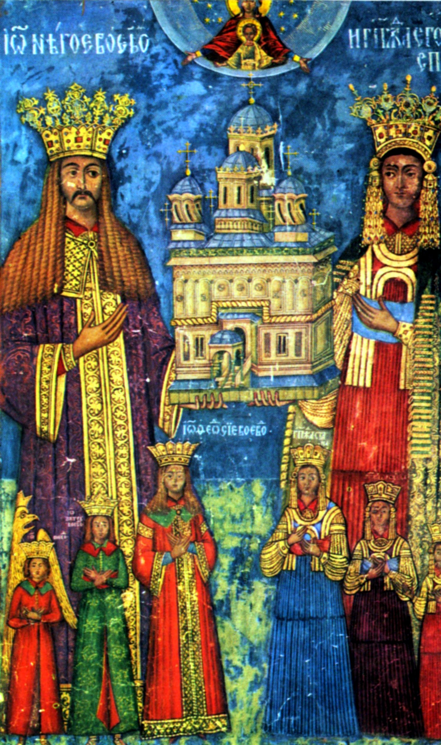 Above: Neagoe Basarab and his wife, Milica Despina; Below (from the left to the right): Petru, Ioan, Teodosie, Angelina, Ruxandra and Stana, their children.